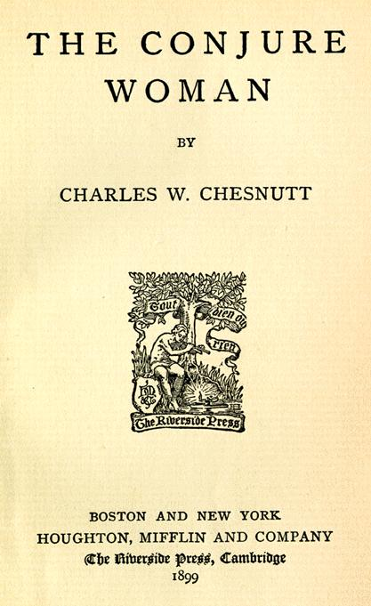 Title page from The Conjure Woman, a collection of short stories written by Charles Waddell Chesnutt. Published by Houghton, Mifflin and Company in 1899.